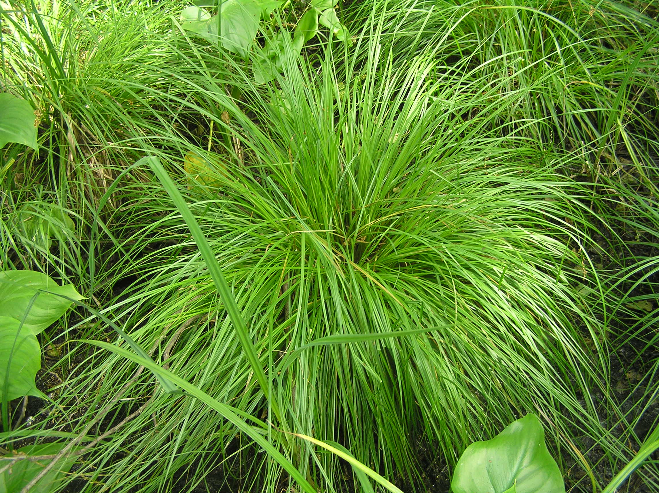 Carex elongata, near the pond Malý Karlov, Eastern Bohemia, Czech Republic